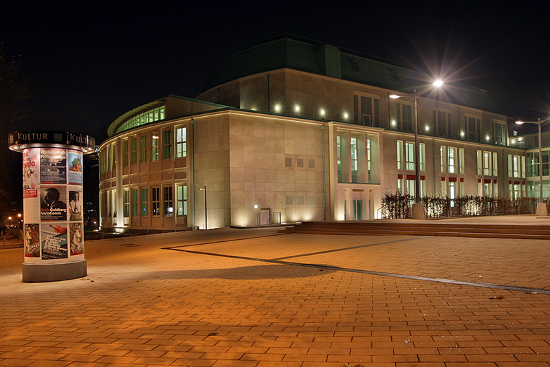 Saalbau, Essen, Germany. Home to the Philharmonie Essen and location of various events.